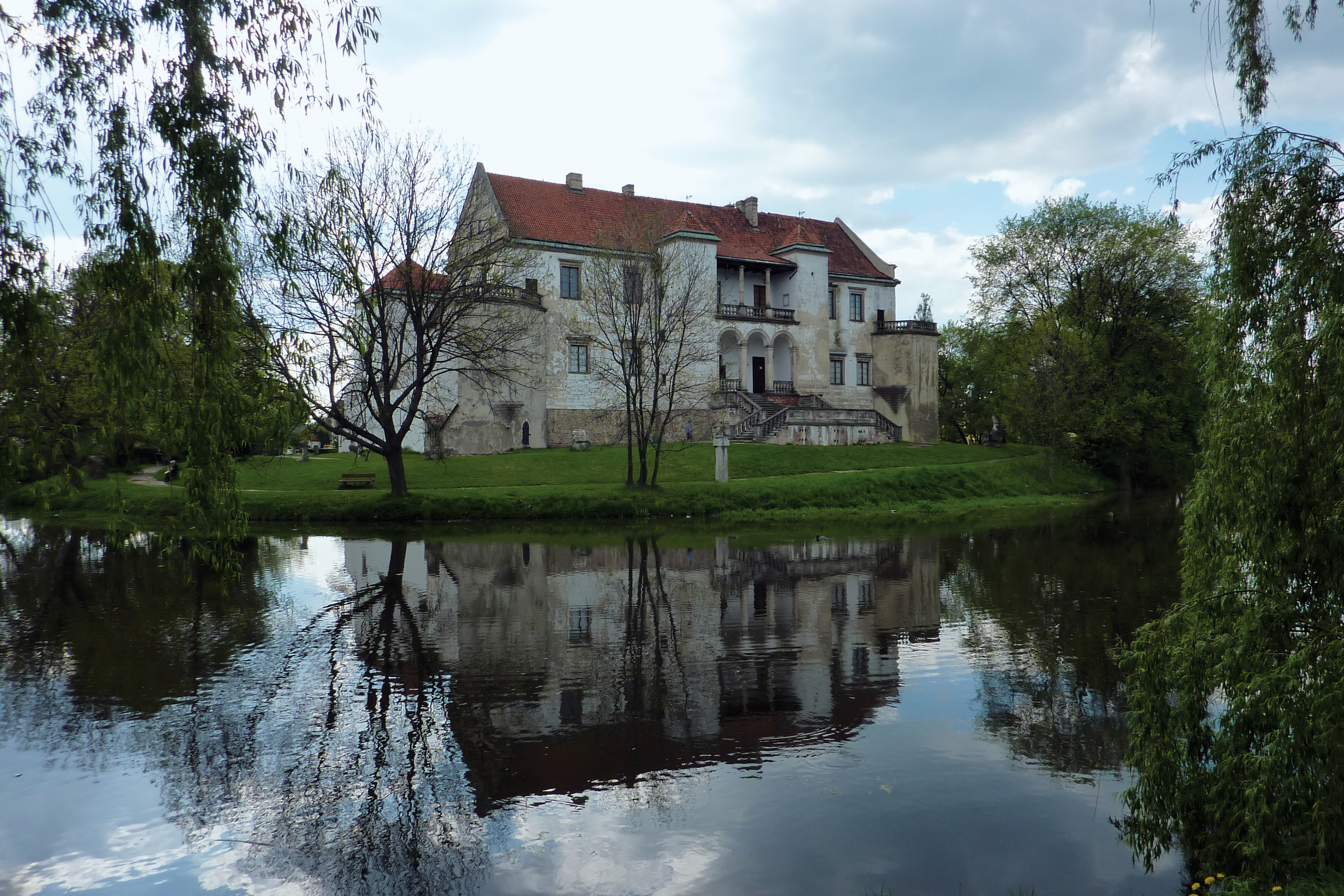 Szydłowiec Castle from east